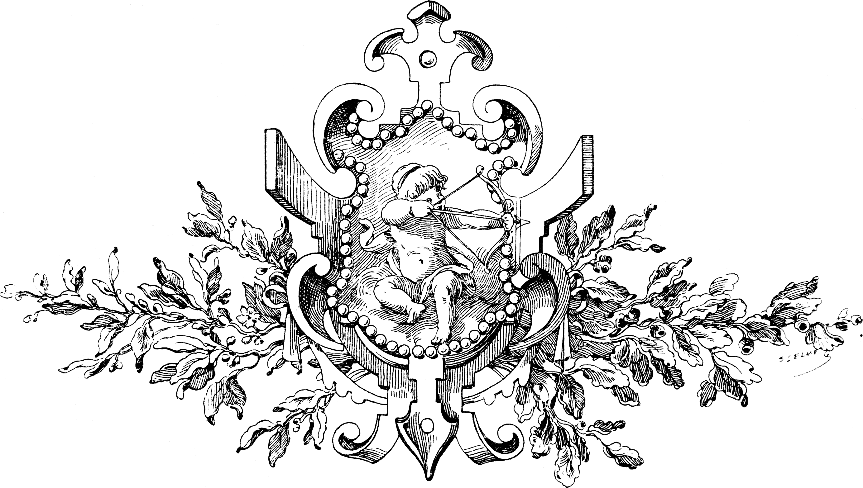 Cupid